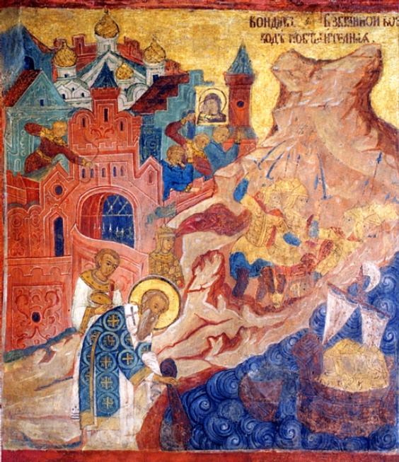 Fresco about events in Rus'-Byzantine War (860). As the story goes, after Michael and Photius put the veil of the Theotokos into the sea, there arose a tempest which dispersed the boats of the Rus barbarians. Fresco is in the temple in the Moscow Kremlin.